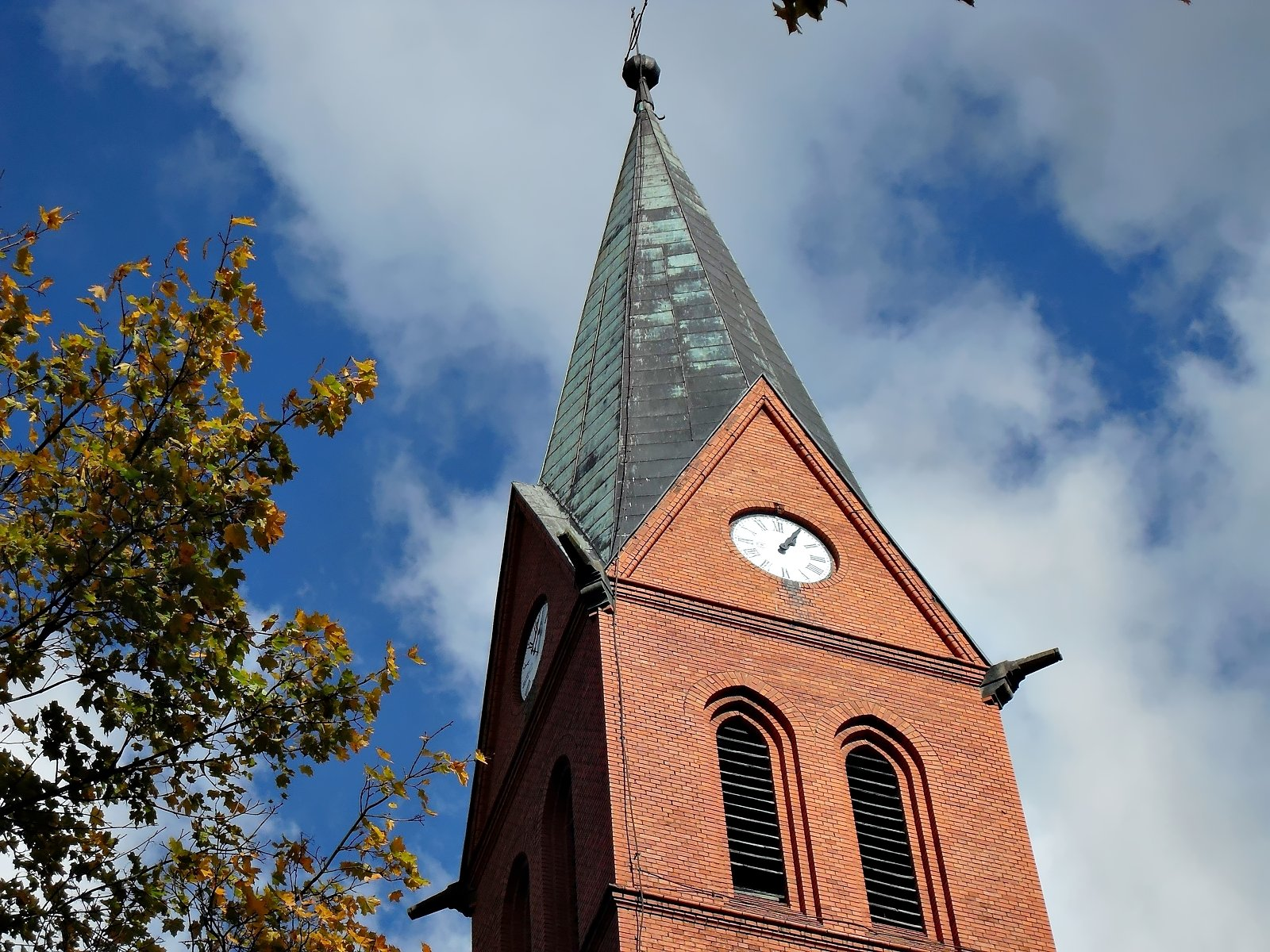 The tower of the church in Łąg, Poland